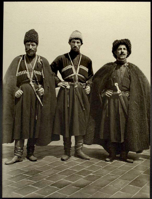 Digital ID: 418042. Sherman, Augustus F. (Augustus Francis) -- Photographer. [ca. 1906] Source: William Williams papers / Photographs of immigrants ( Repository: The New York Public Library. Manuscripts and Archives Division. See more information about and others at Persistent URL: Rights Info: No known copyright restrictions; may be subject to third party rights (for more information